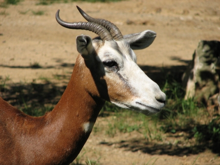 Dama Mhorr Gazelle Louisville Zoo Author User:Ltshears